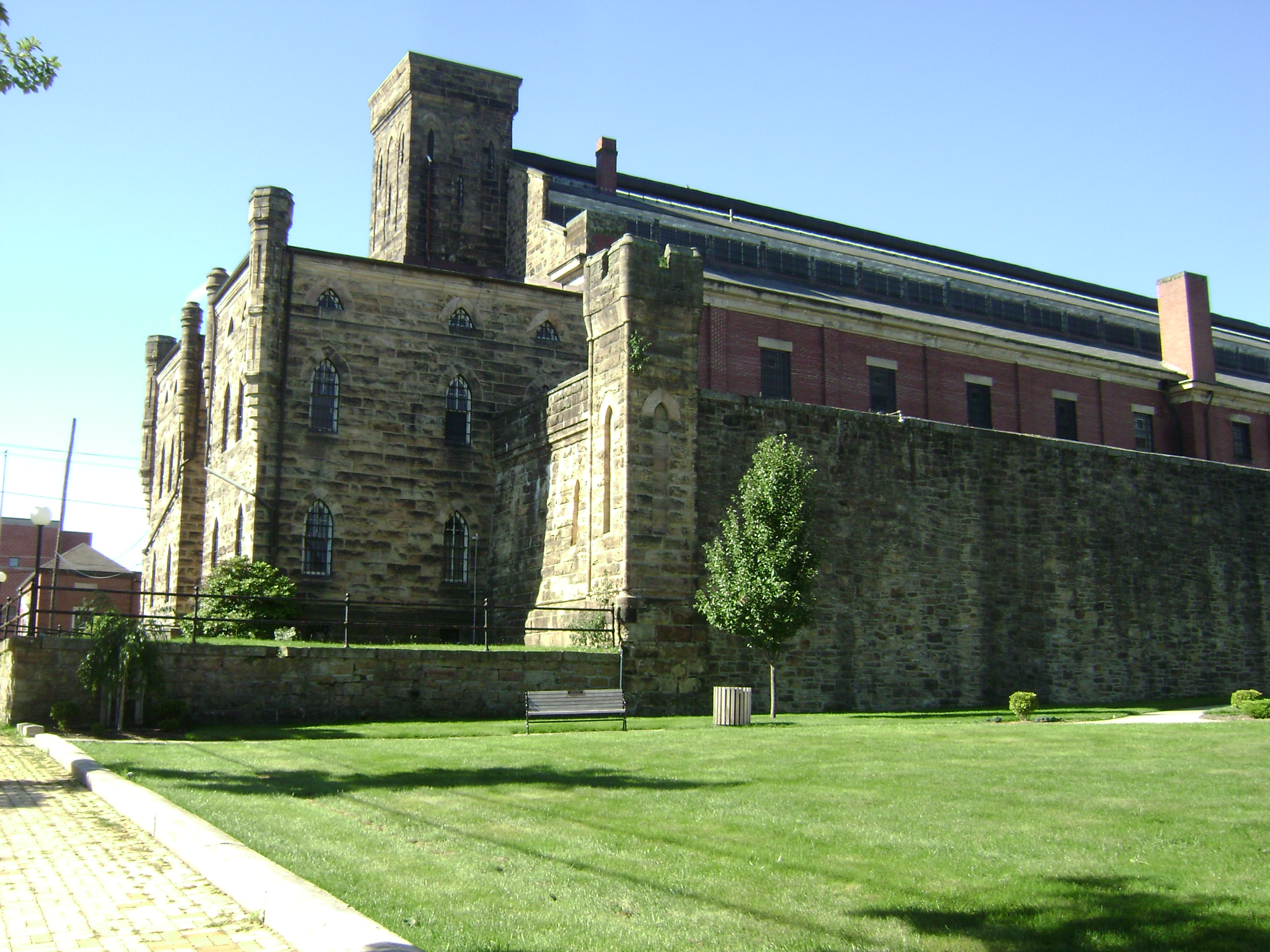 Photo of the Cambria County jail showing the original portion and the visible parts of the 1910 extension. This side of the jail borders the Cambria County Veterans Park.